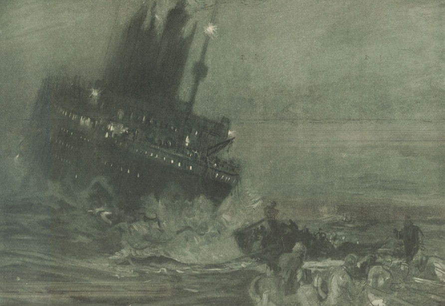 Sinking of the Titanic, drawn from wireless description